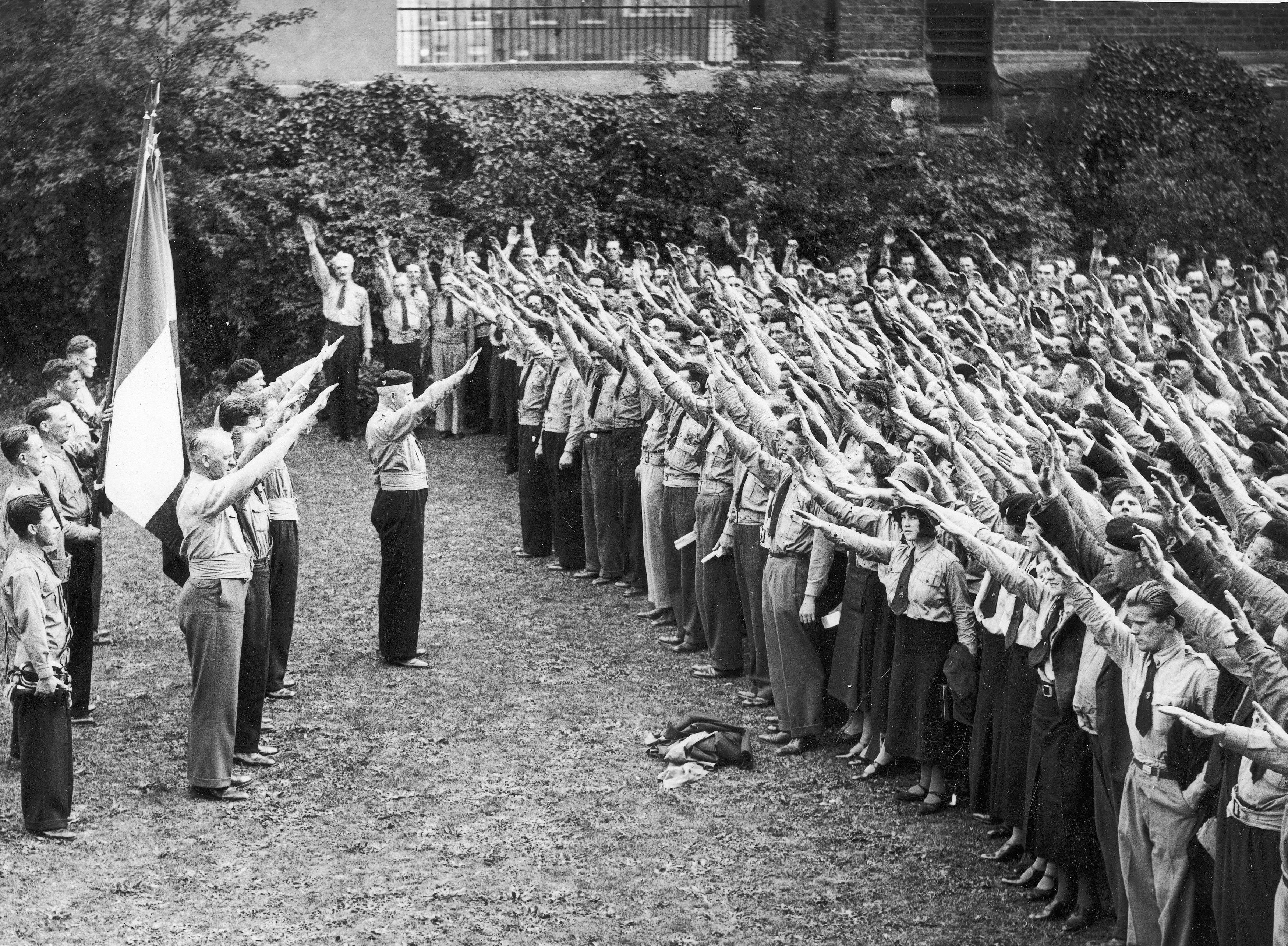 Fascist leader O'Duffy with activists of the Blue Shirt Movement